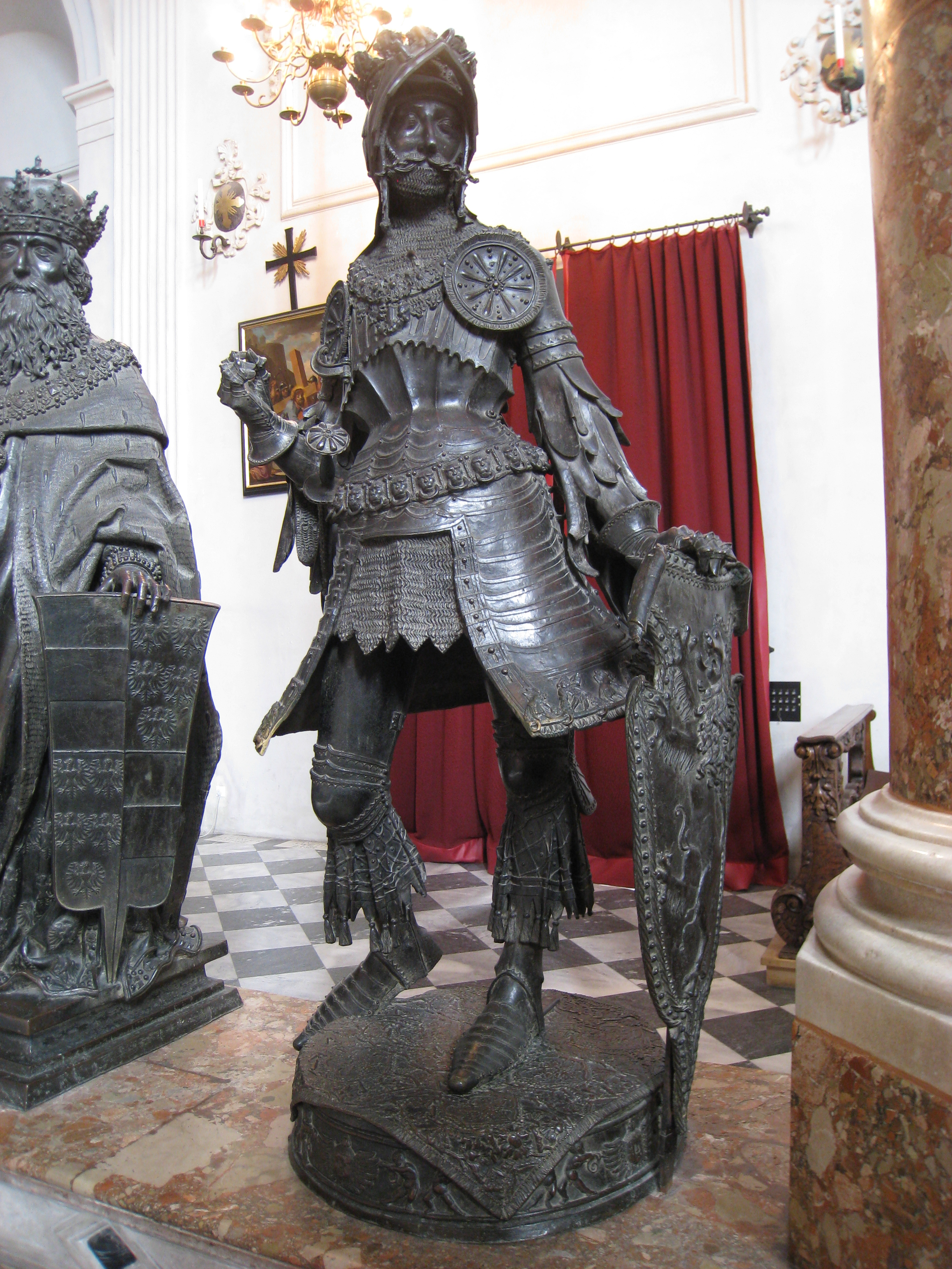 Statue within Hofkirche, Innsbruck, Austria. This statue is old enough so that it is not covered by any copyright.